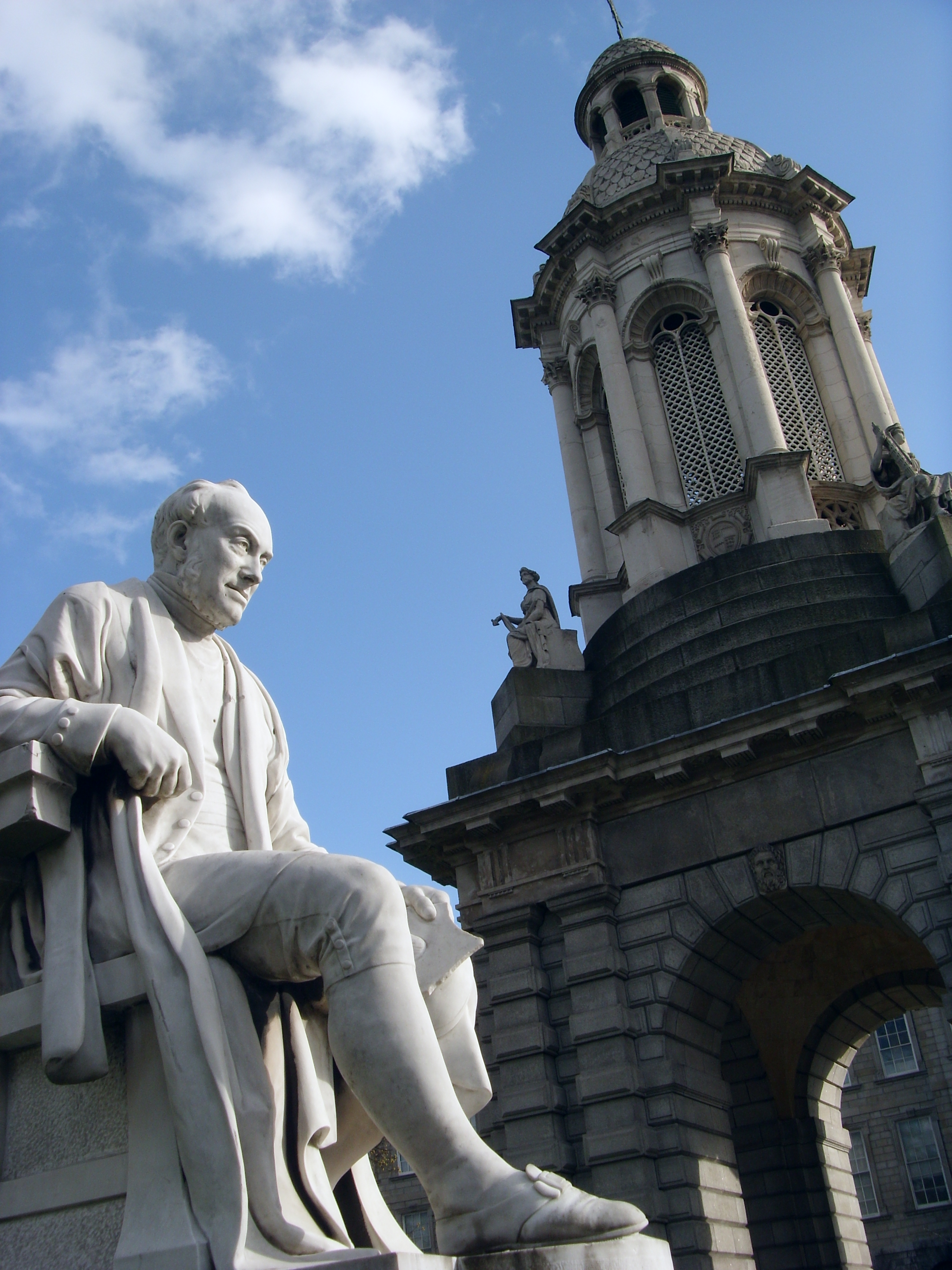 Sculpture of George Salmon at Trinity College, Dublin, Ireland